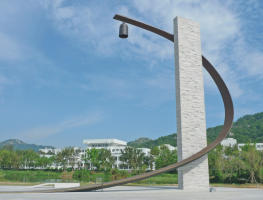 This is one of the sign places in Shantou University.